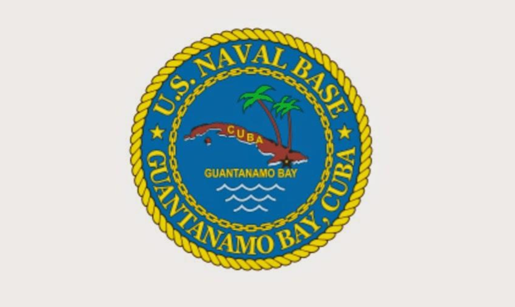 Flag used by the Guantanamo Bay Naval Base